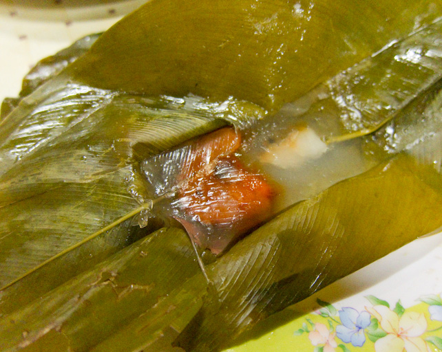 Shrimp in glutinous tapioca flour dumpling, typically wrapped in banana leaf. Our were wrapped in "la dong" leaf (Phrynium placentarium) which added an interesting vegetal note.